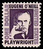 Scott 1294 - $1 Eugene O'Neill Designer: Norman Todhunter Engraver: A. W. Dintaman Issued at New London CT FDOI: Oct. 16, 1967